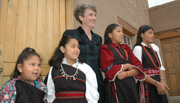 United States Congresswoman Heather Wilson (R- New Mexico) with Pojoaque girls.